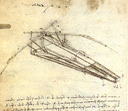 Design for a Flying Machine